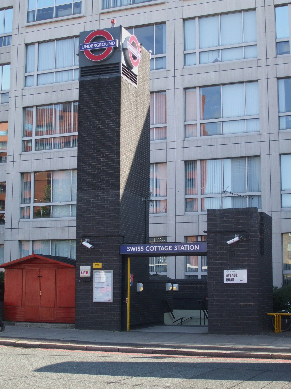 Swiss Cottage tube station east entrance on Avenue Road